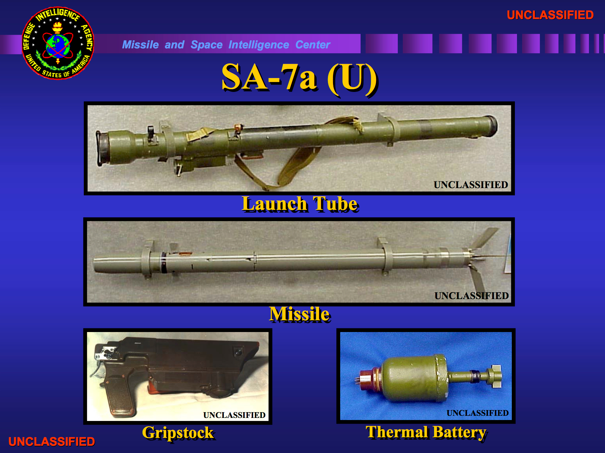 SA-7a MANPADS launch tube, missile, grip stock, and thermal battery.